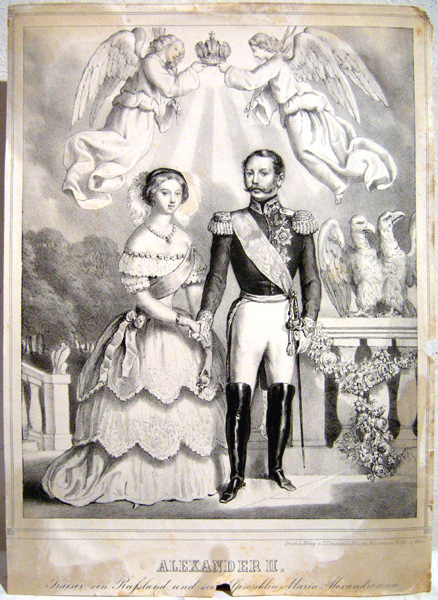 Alexander II and Maria Alexandrovna